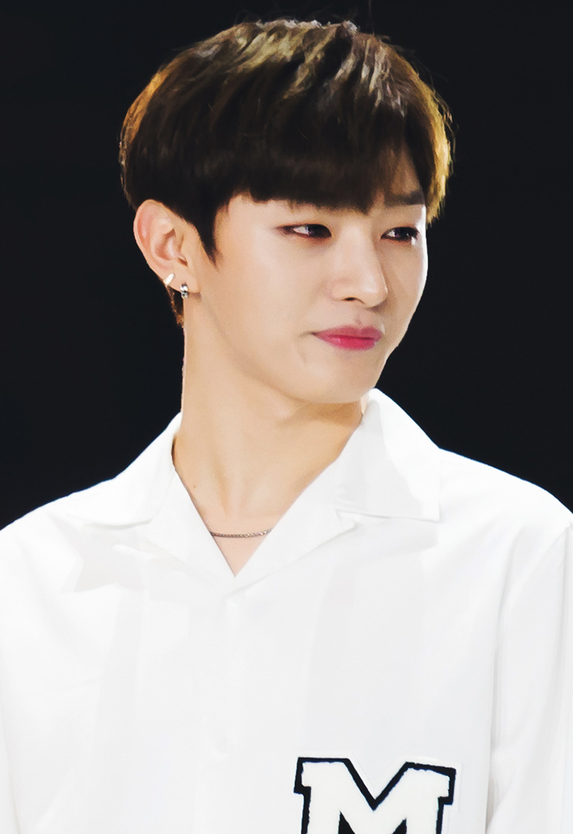 Yoon Ji-sung during the Busan One Asia Festival on October 22, 2017.